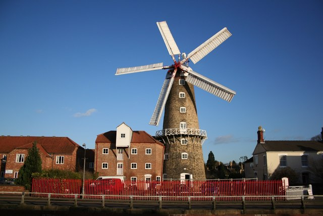 Maud Foster Mill, Skirbeck, Boston. A five-sailed mill that is working commercially for trade.